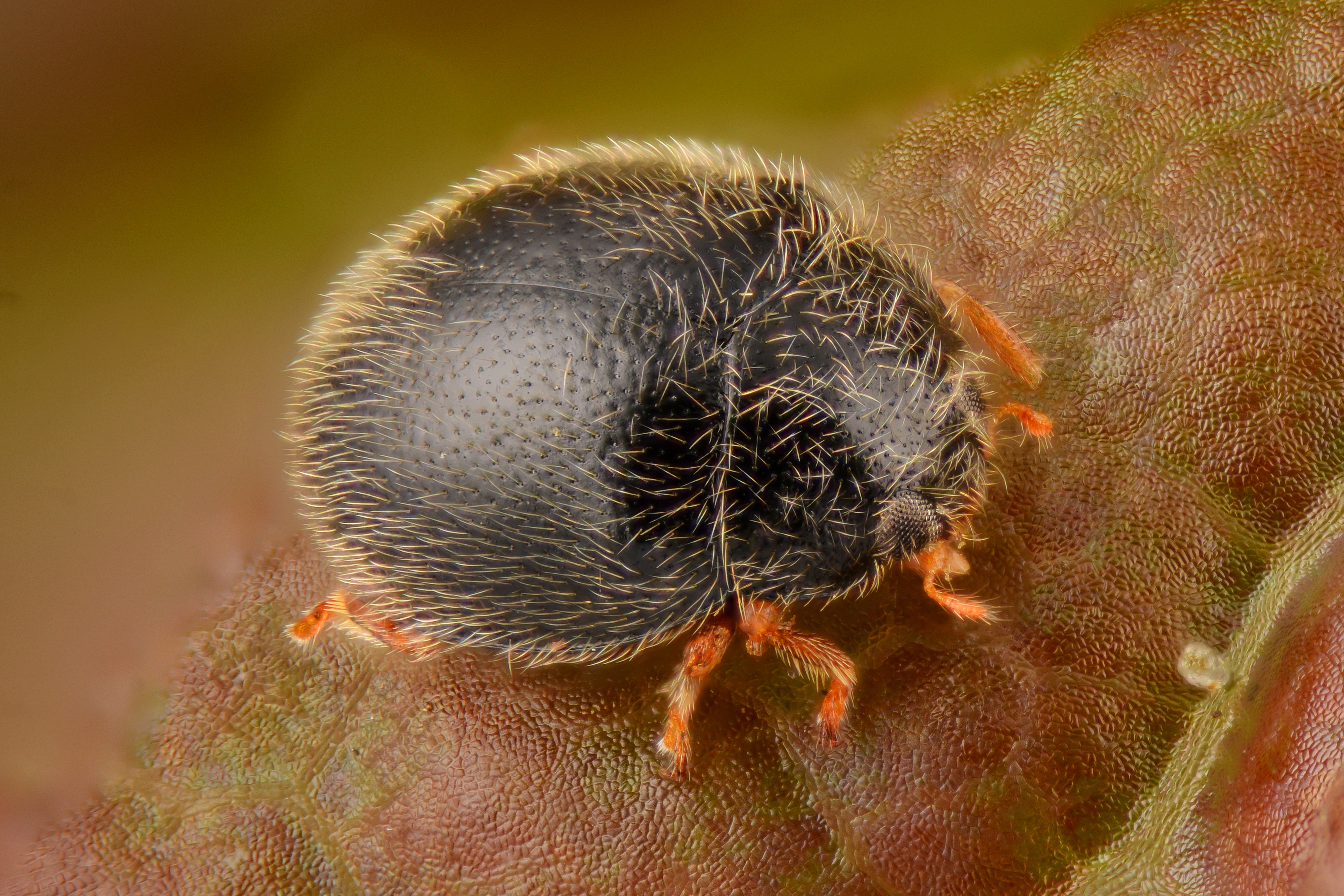 Stethorus pusillus (= Stethorus punctillum) on a young mapple leaf (Acer pseudoplatanus). Focus stack of 191 pictures.